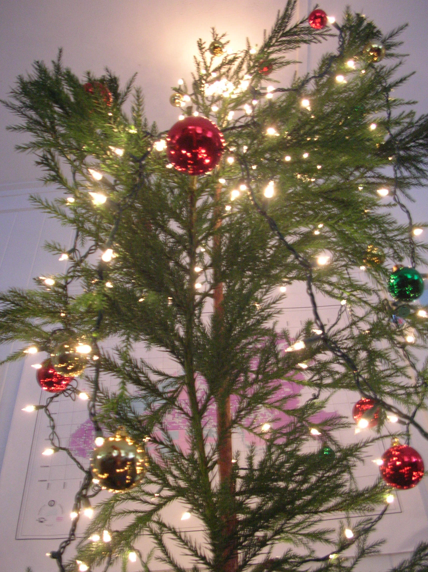 Cryptomeria japonica (xmas tree). Location: Maui, Makawao